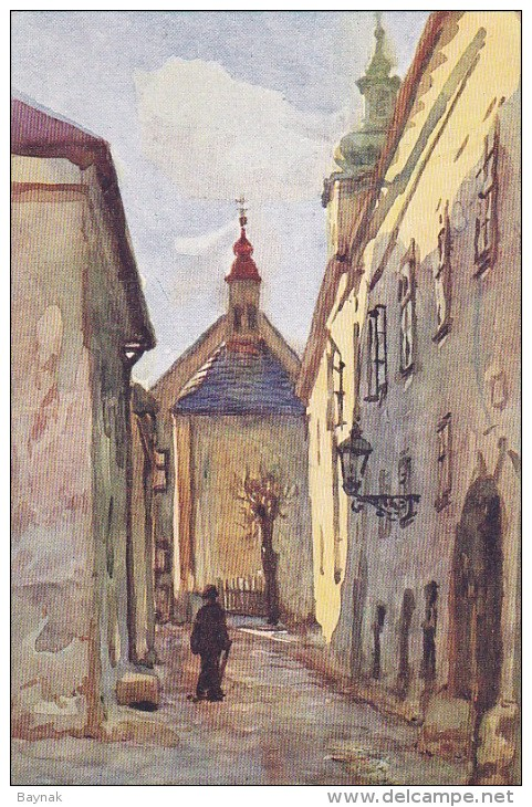 Postcard from the serie "Old Zagreb" by Pyotr Fetisov (1877-1926)